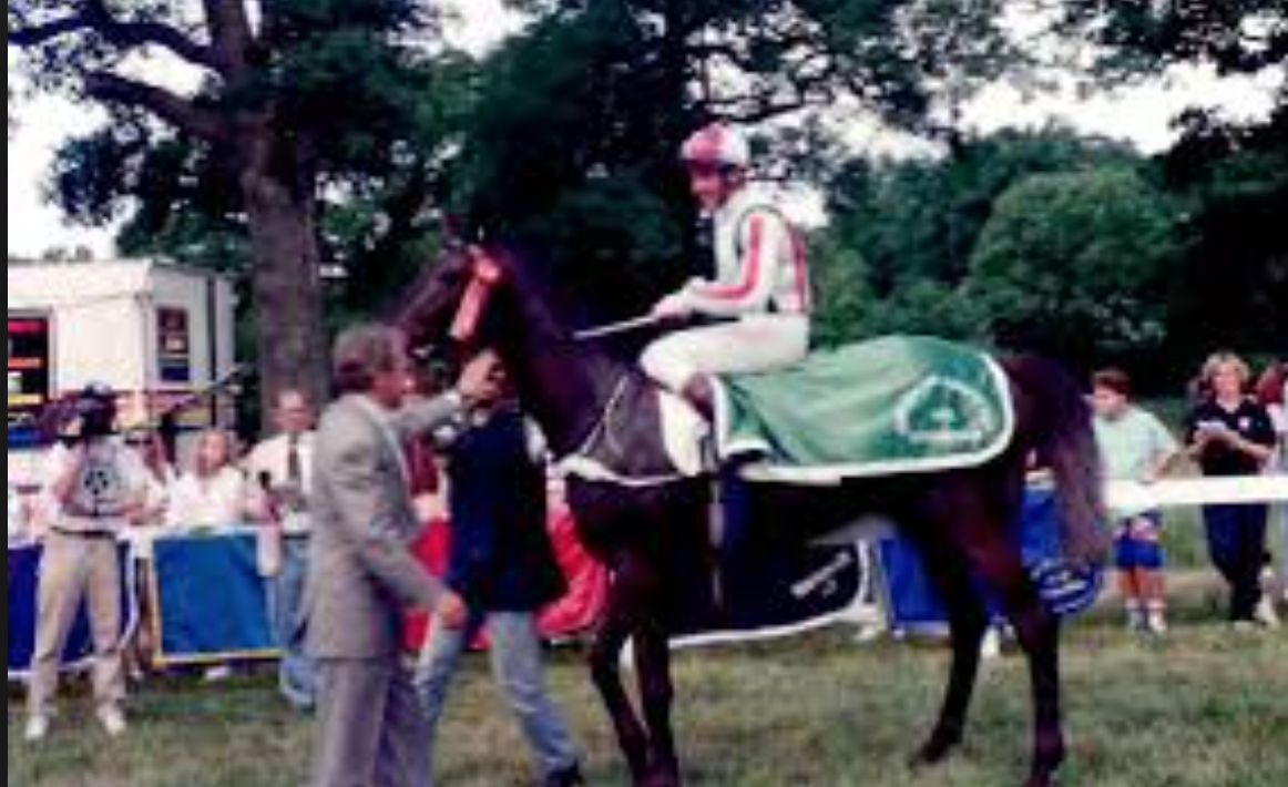 Steeplechase jockey Tony Frick after a win